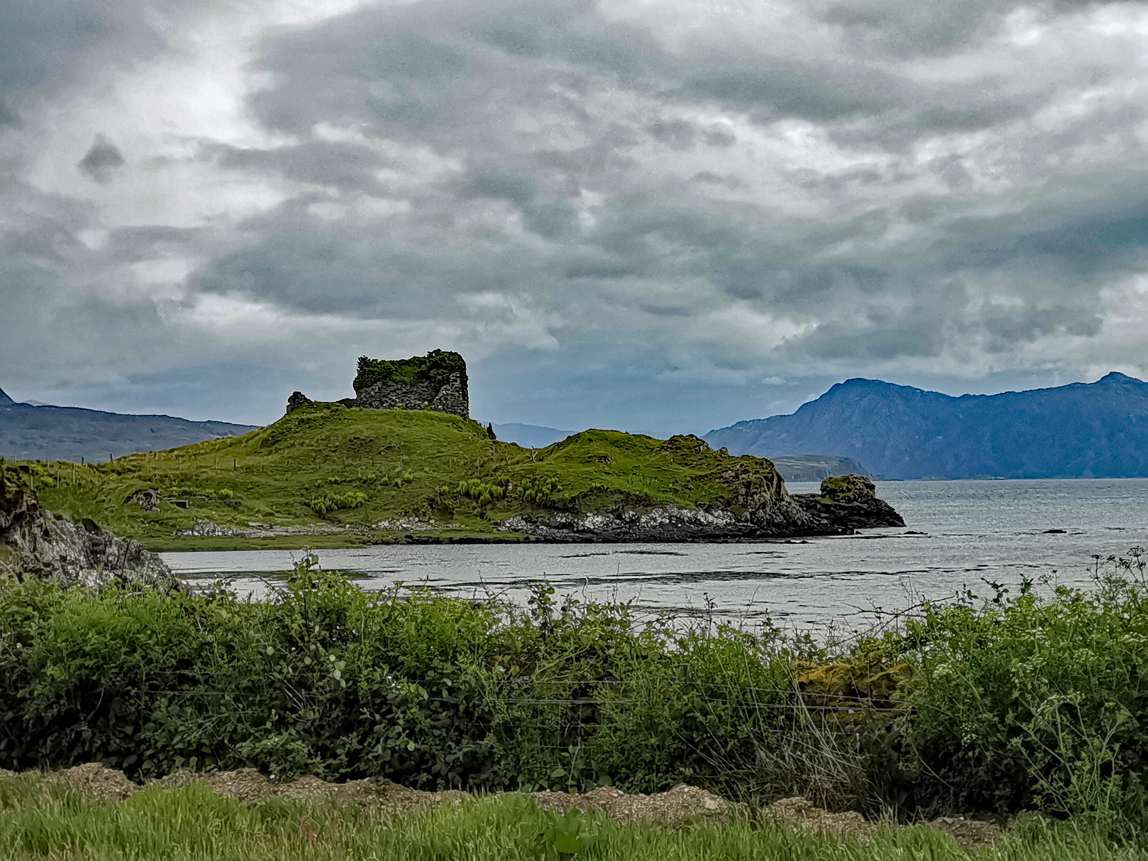 Isle of Skye (Inner Hebrides, Scotland, UK)